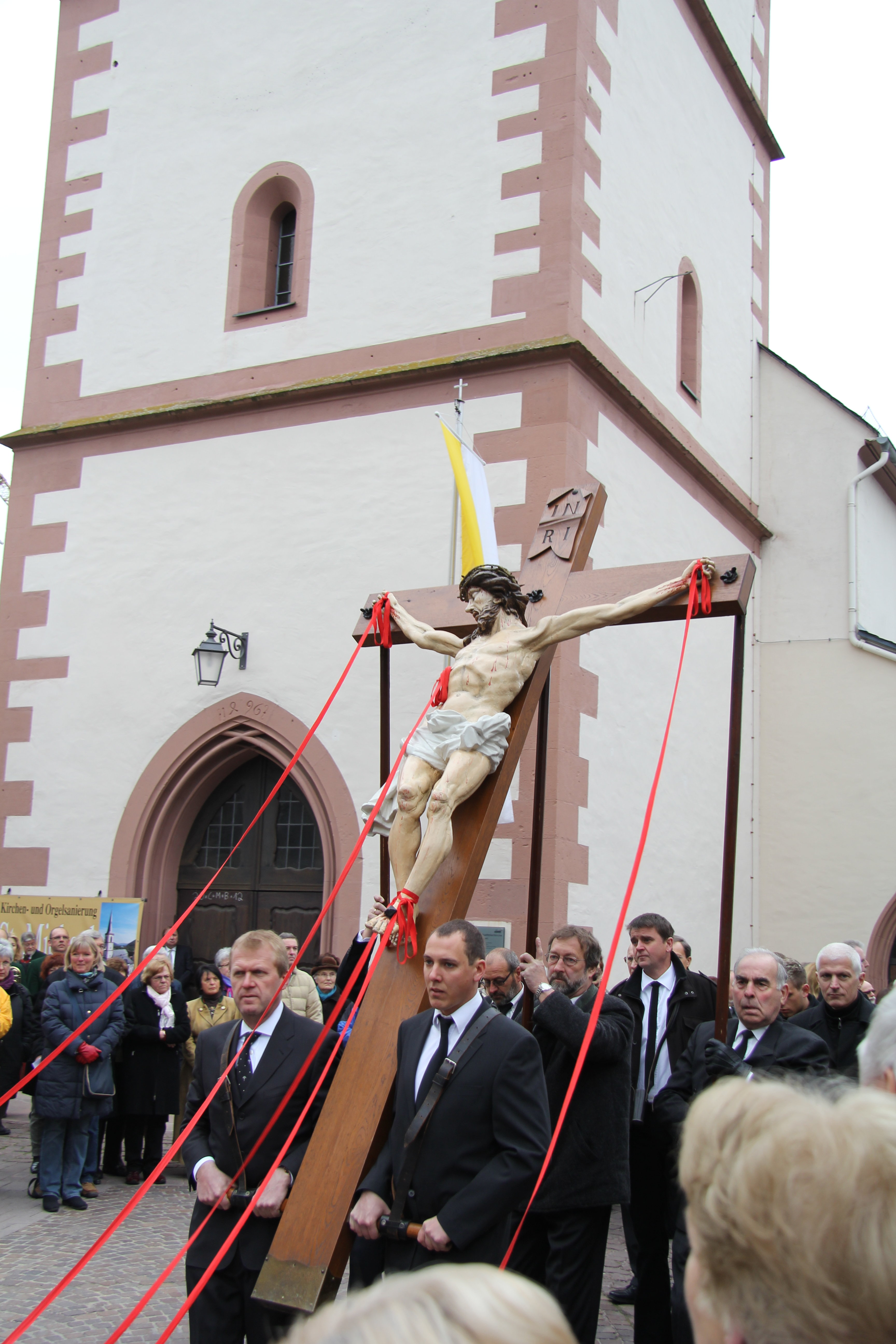 Good Friday Procession in Lohr am Main, Bavaria, Germany